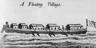 Floating village. Illustration from the Historical Description of Formosa